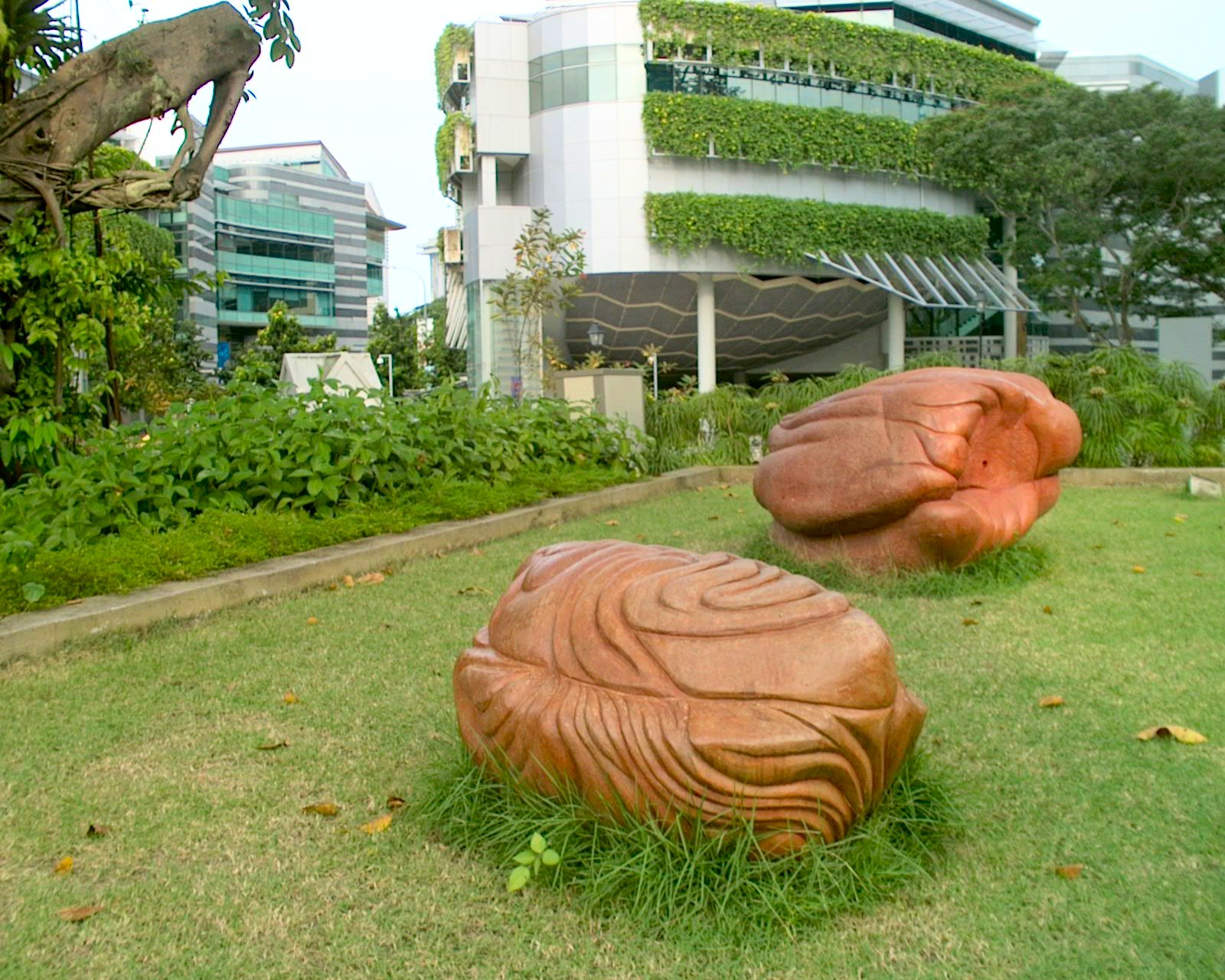 Singaporean sculptor Han Sai Por's sculpture Seeds, located in the grounds of the National Museum of Singapore with the Singapore Management University in the background. The two pieces were carved from sandstone excavated from Fort Canning Hill during the National Museum's redevelopment: see Seeds by Han Sai Por (Singapore), National Museum of Singapore, 2006, archived from the original on 14 June 2009, retrieved on 13 June 2009; Marguerita Tan, "Hidden treasures", Time Out Singapore (reproduced on the Singapore Tourism Board website), archived from the original on 14 June 2009, retrieved on 14 June 2009.